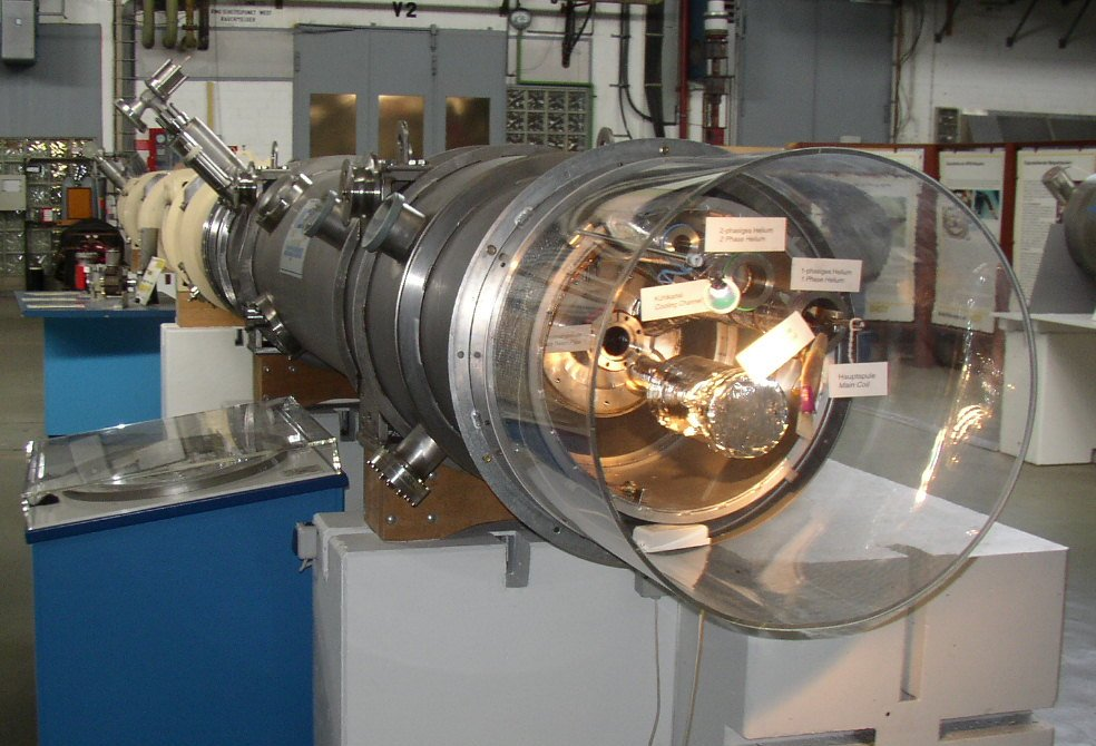 Segment of HERA (Hadron-Elektron-Ring-Anlage, "Hadron-Electron-Ring-Facility"), largest synchrotron and storage ring at DESY (Deutsches Elektronen Synchrotron, "German Electron Synchrotron") in Hamburg, Germany.